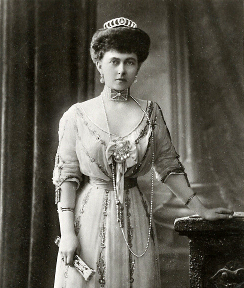 Queen Sophia of Greece (1870-1932)